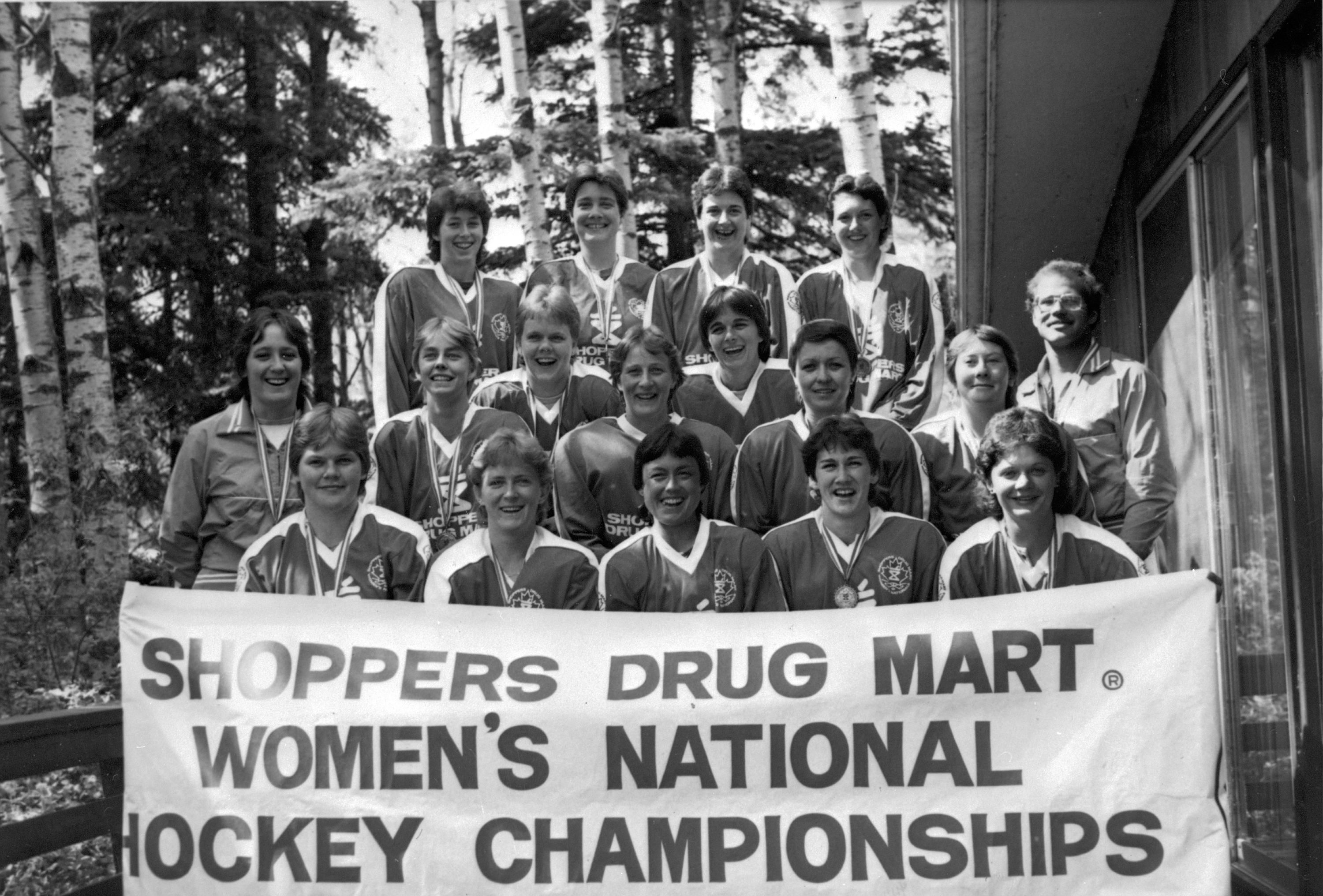 Provincial Archives of Alberta, A12904.